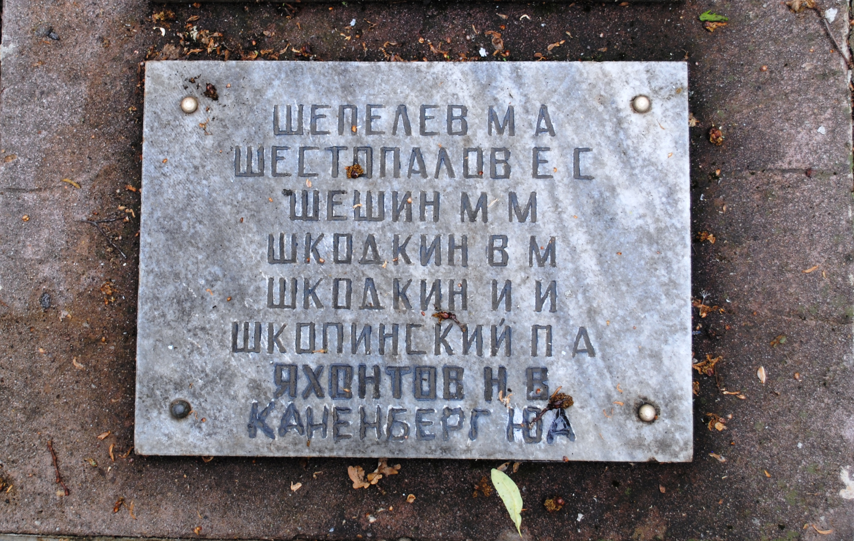 Spisok Lipovchika